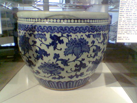 This old Ming bowl, from the Danish ship, The Crown Princess of Denmark, was given to Esias Meyer by the Captain of the ship, Svend Finger, for assisting the crew after the ship shipwrecked at Mossel Bay, South Africa in 1752.